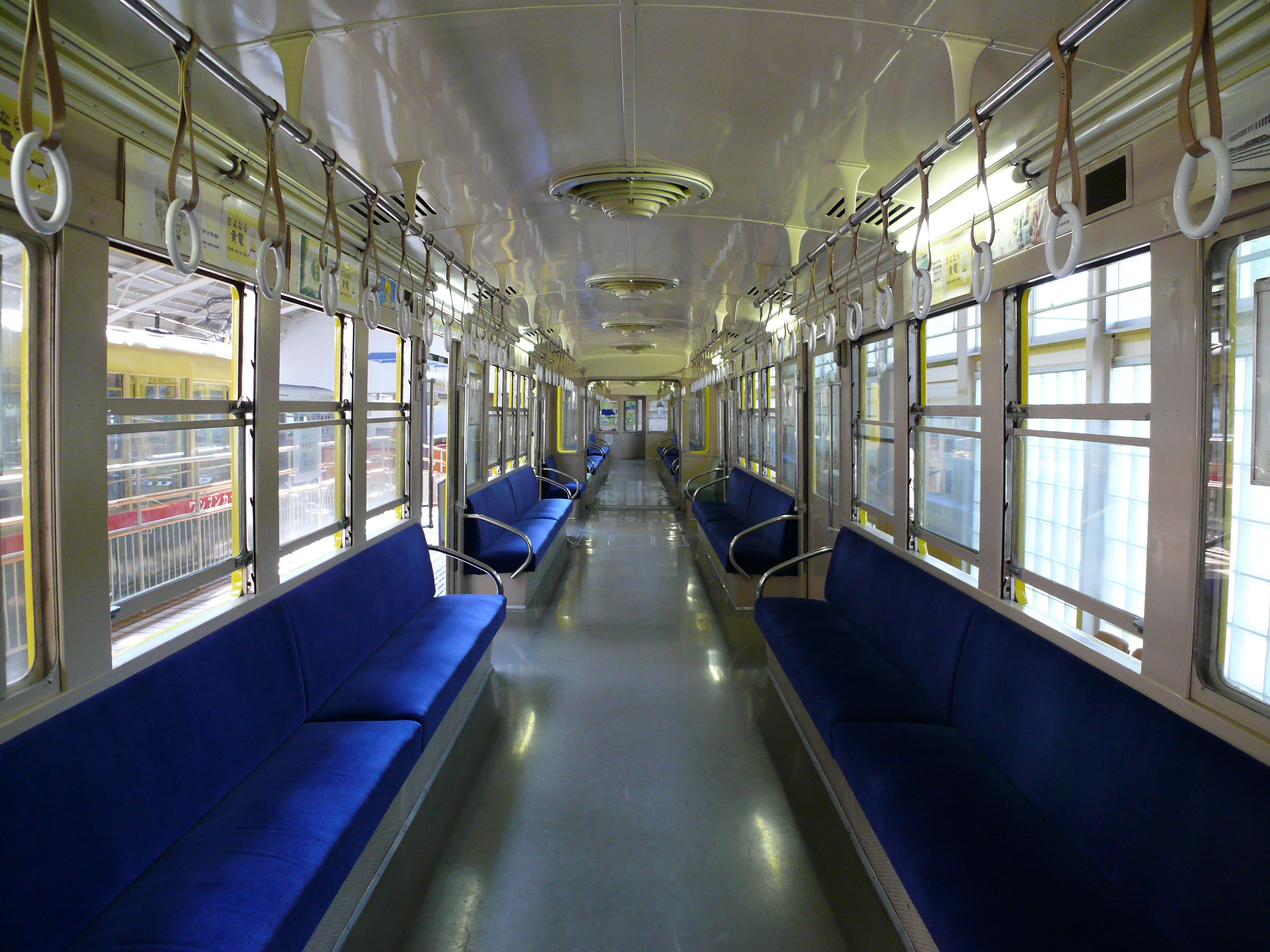 Nagoya City Tram & Subway Museum.